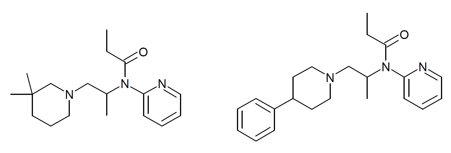 Structure of the propiram derivatives 3,3-dimethylpropiram and 4-phenylpropiram